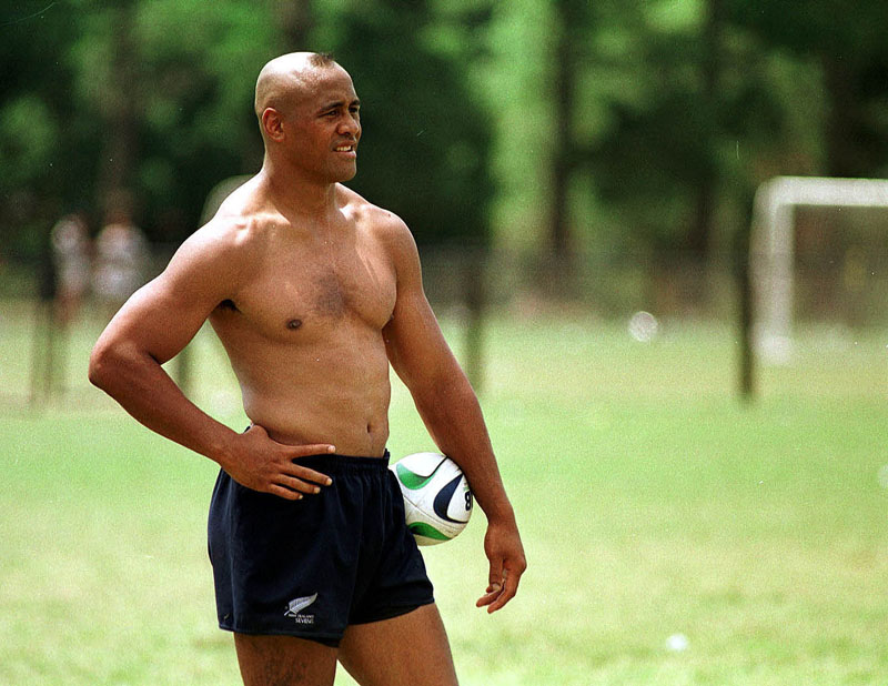 Jonah Lomu is a New Zealand rugby union player. 2001 Rugby World Cup Sevens .